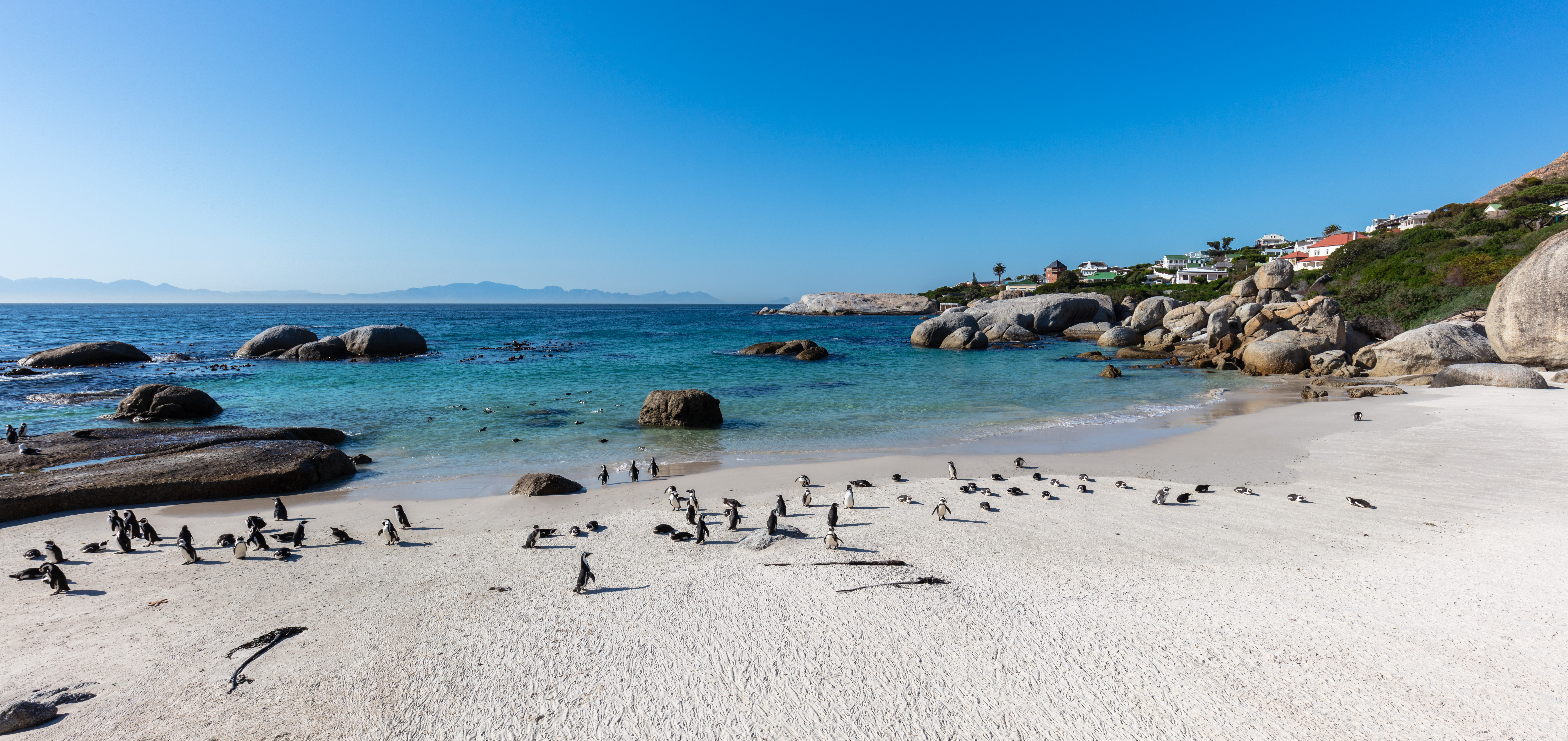 African penguins (Spheniscus demersus), Boulders Beach, Simon's Town, South Africa